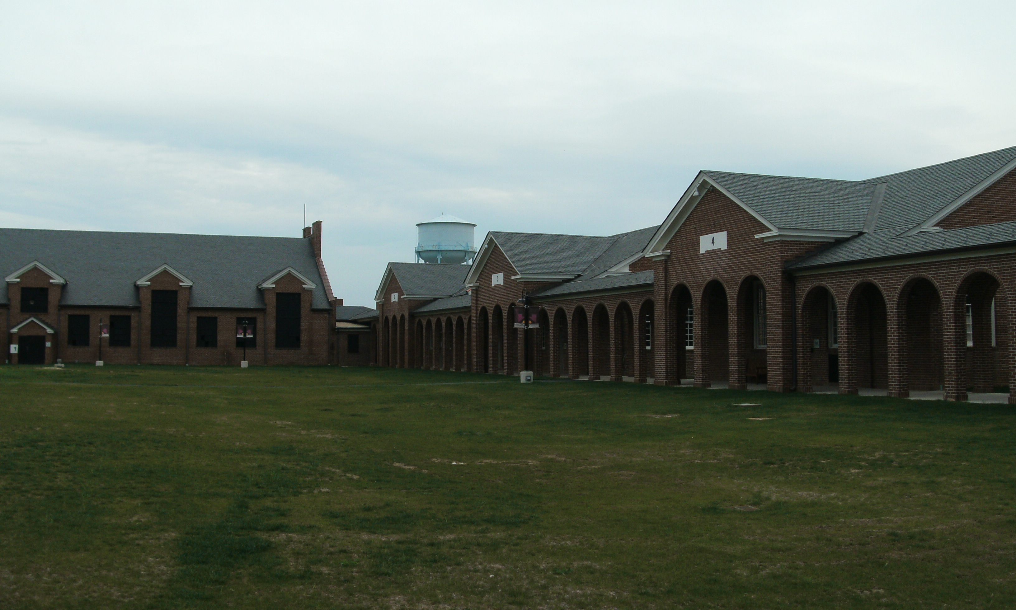 Fairfax County, VA GEDSC DIGITAL CAMERA